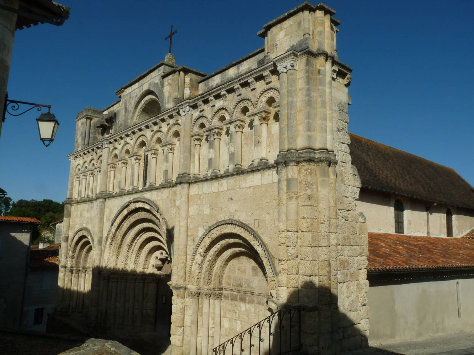 St James's church at Aubeterre-sur-Dronne, Charente, SW France